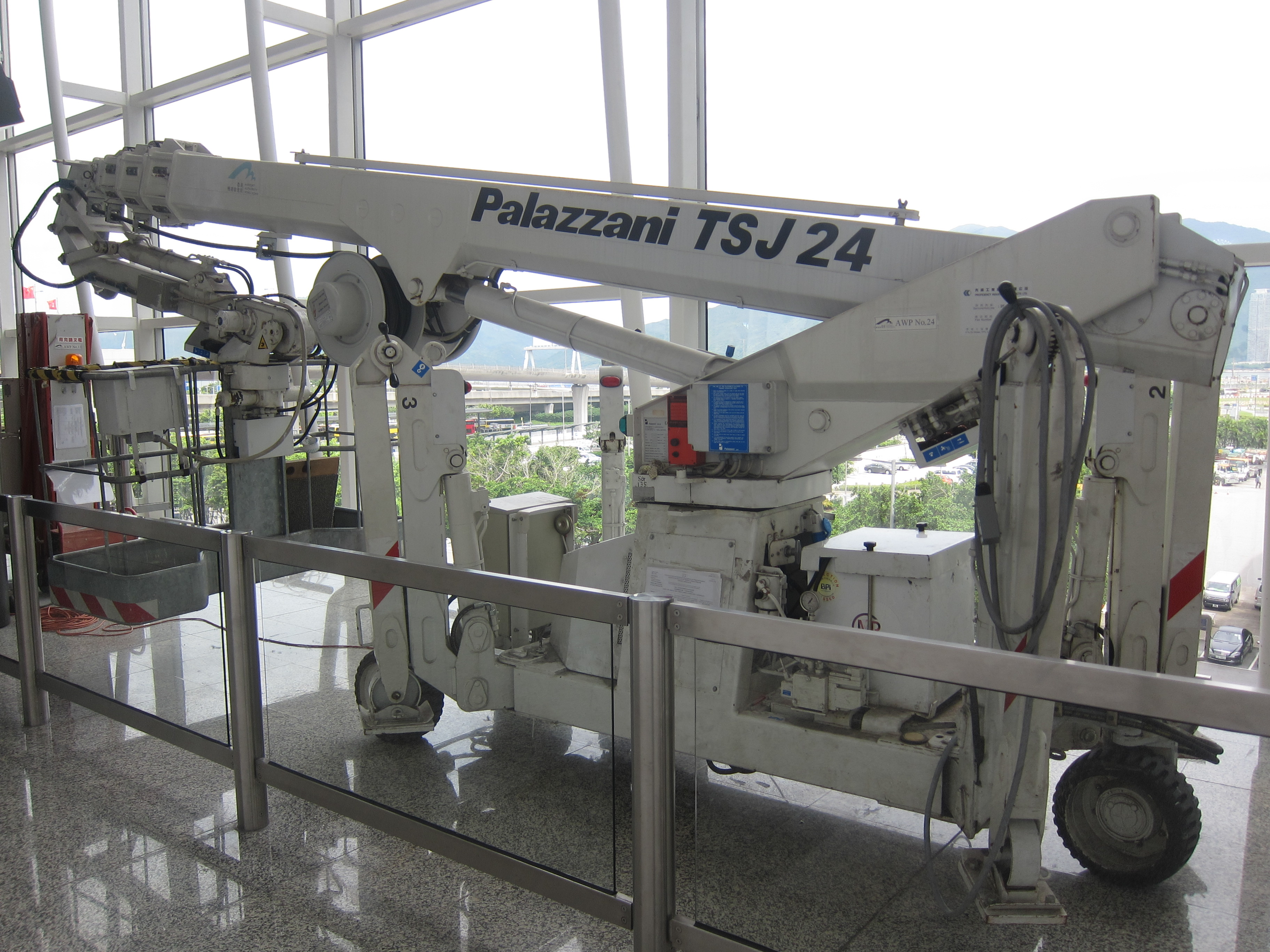 A Palazzani TSJ 24 in Hong Kong International Airport